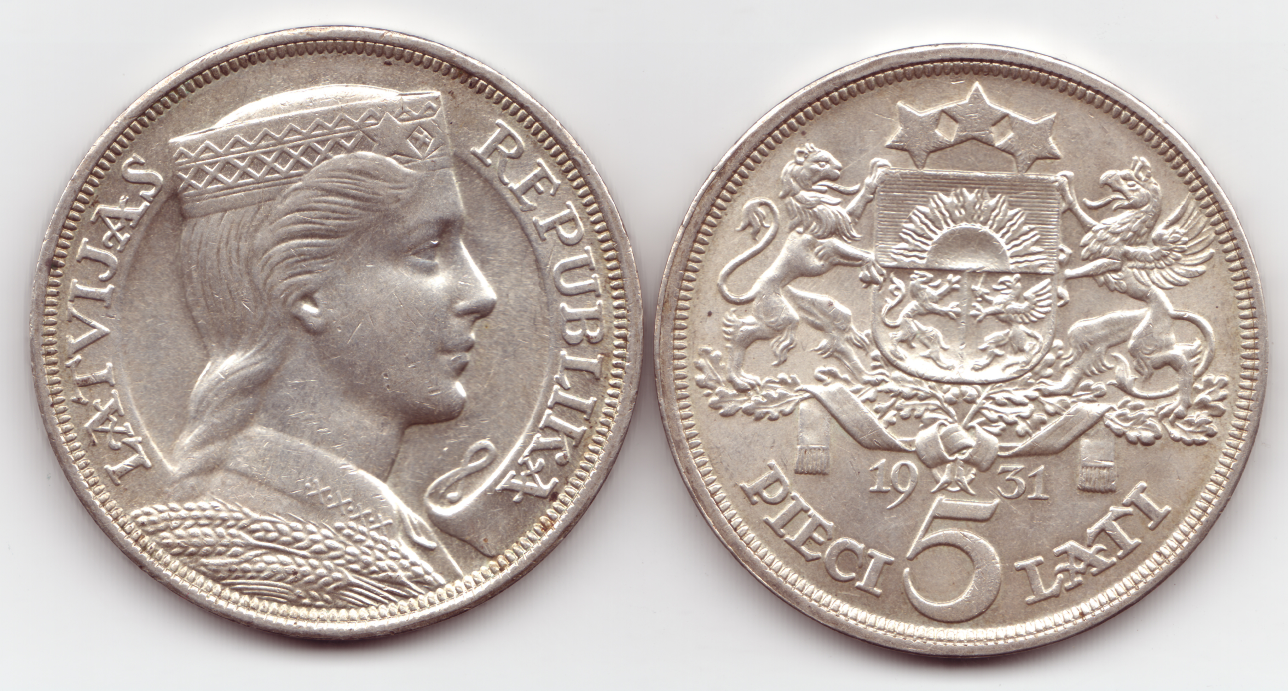 Historical coin of five Latvian lats issued in 1931. It became a popular symbol of independence during the Soviet era. The coin was designed by Rihards Zariņš. Obverse: The large coat of arms of the Republic of Latvia is placed in the centre. The numeral 5 topped with the year 1931 are inscribed beneath the central motif. The inscriptions PIECI (five) and LATI (lats), arranged in a semicircle, are placed to the left and right of the central motif, respectively. Reverse: The central motif is a Latvian maiden in profile, viewed from the right side. The girl has ears of grain on her shoulder. The inscriptions LATVIJAS and REPUBLIKA, arranged in a semicircle, are placed to the left and right of the central motif, respectively. Edge: Inscription "God bless Latvia" in Latvian, words seperated by three six point stars (That is - ***Dievs***Svētī***Latviju)